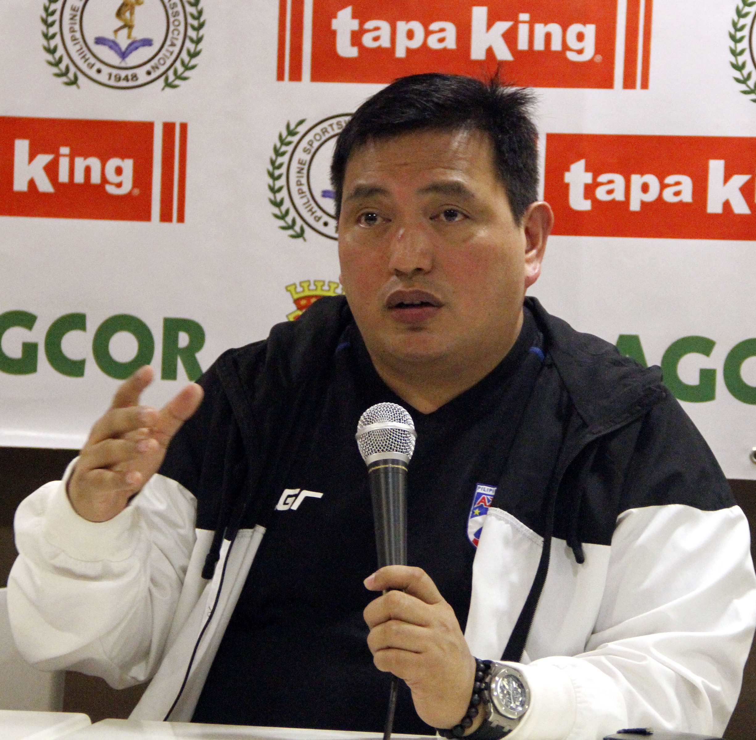 Philippine Azkals team manager Dan Palami talks about the team's preparation for the 2019 Asian Cup during the Philippine Sportswriters Association Forum at Tapa King Cubao in Quezon City on Tuesday (April 3, 2018). The Azkals defeated Tajikistan in the qualifying match last week at the Rizal Memorial Stadium and will advance to the Asian Cup to be held next year.